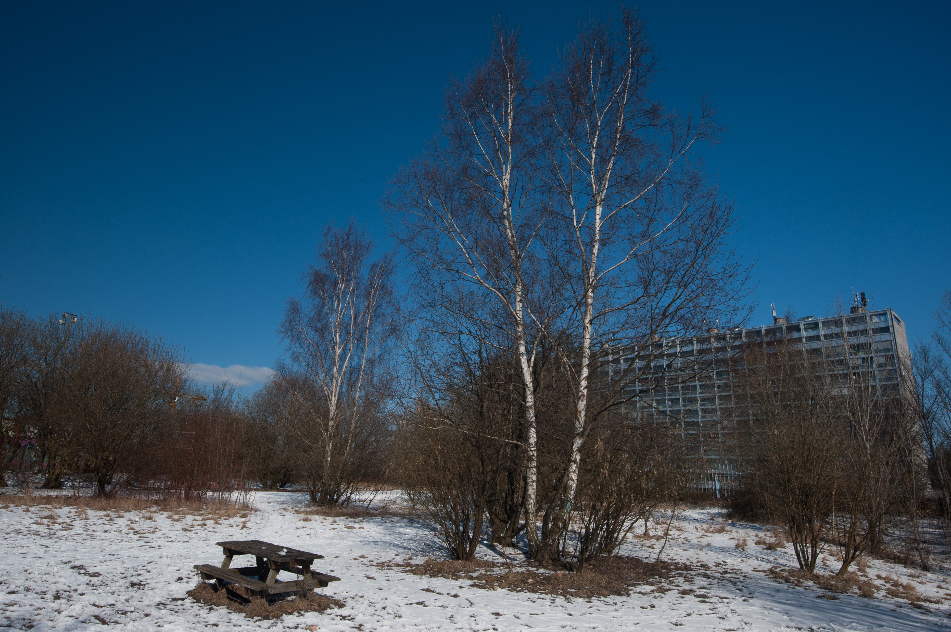 An uncared-for green spot in Copenhagen, which was previously used by a factory making tinned foods (1850-1970) named Beauvais Foods.